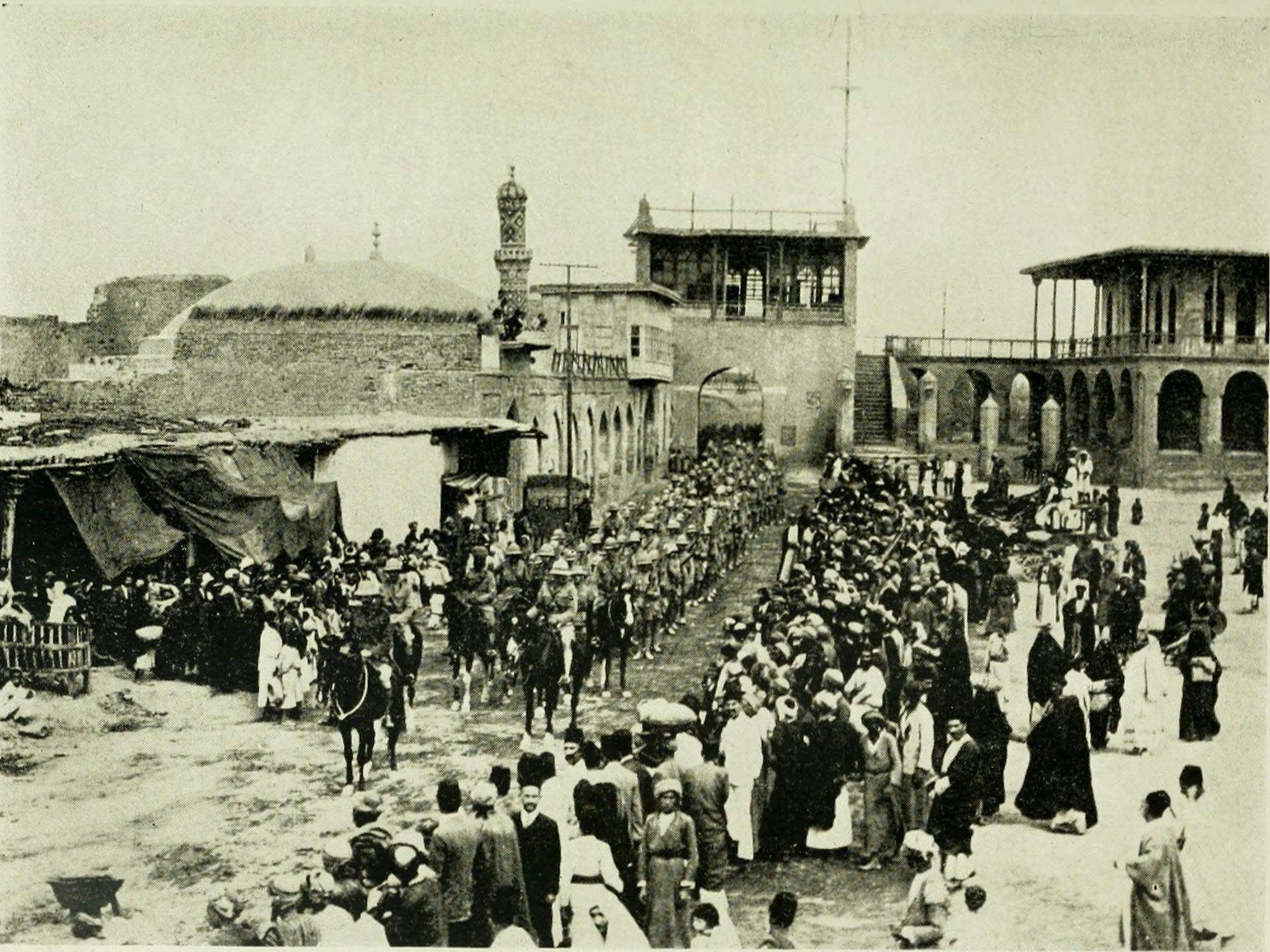 Sir Frederick Stanley Maude leads the Indian Army into Baghdad.